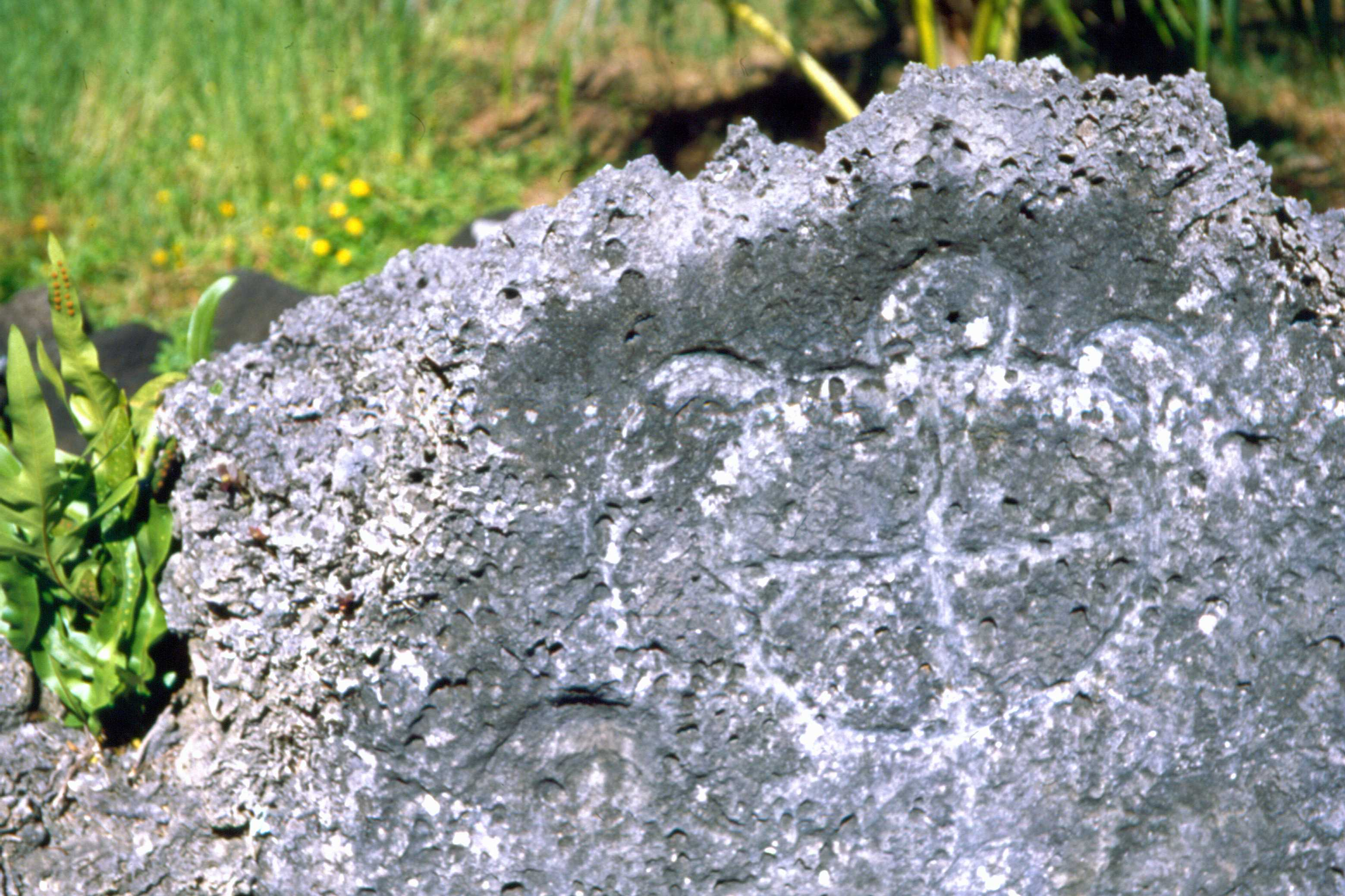 A turtle subject found at Fare Opu marae, Bora Bora, Society Islands, French Polynesia